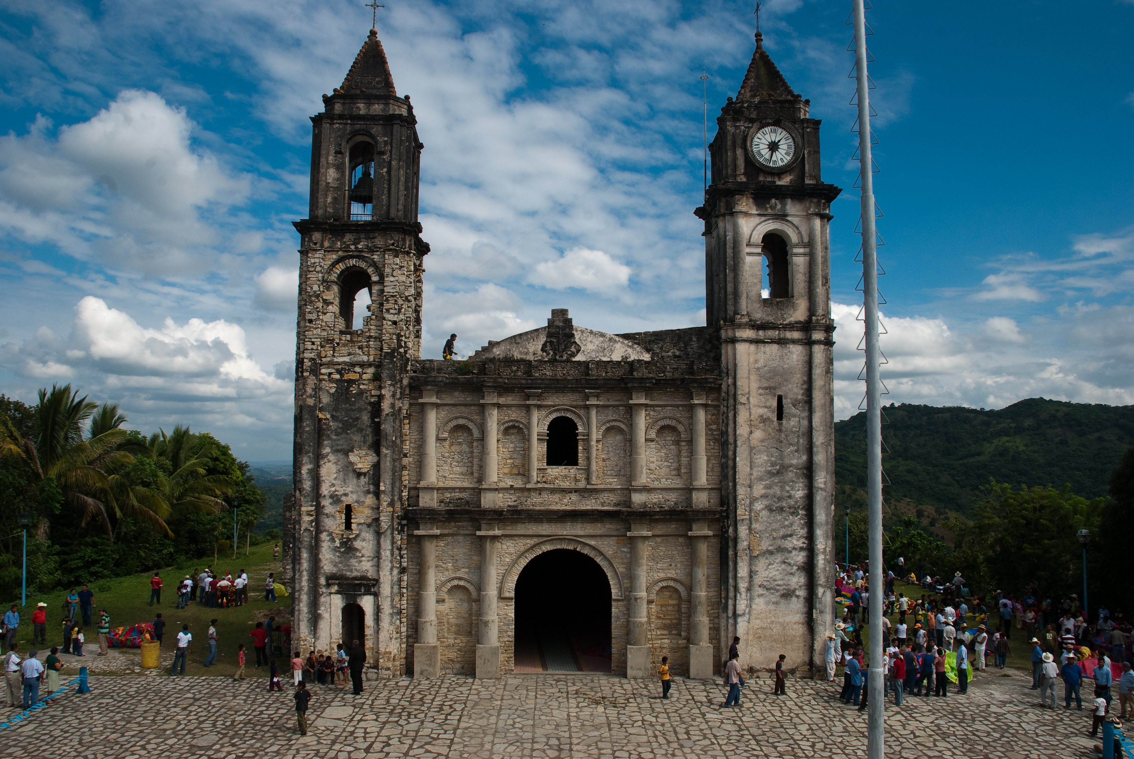 A Roman Catholic church in Zozocolco, Veracruz.